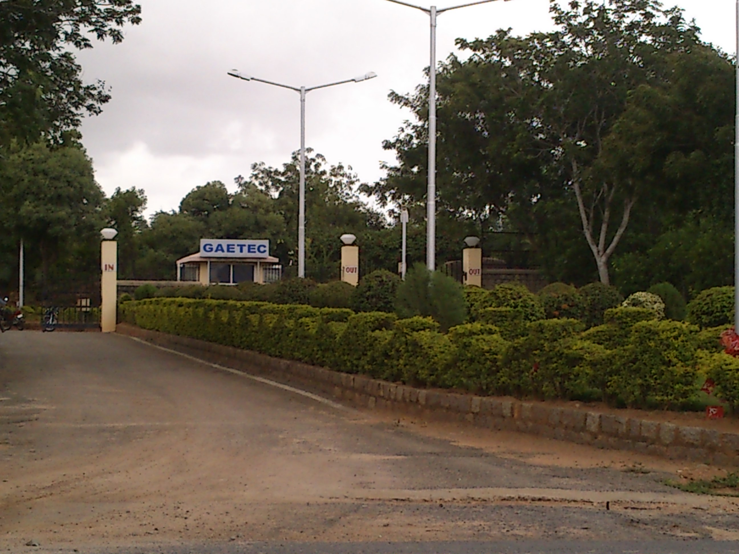 The main gate of GAETEC centre of DRDO, Hyderabad